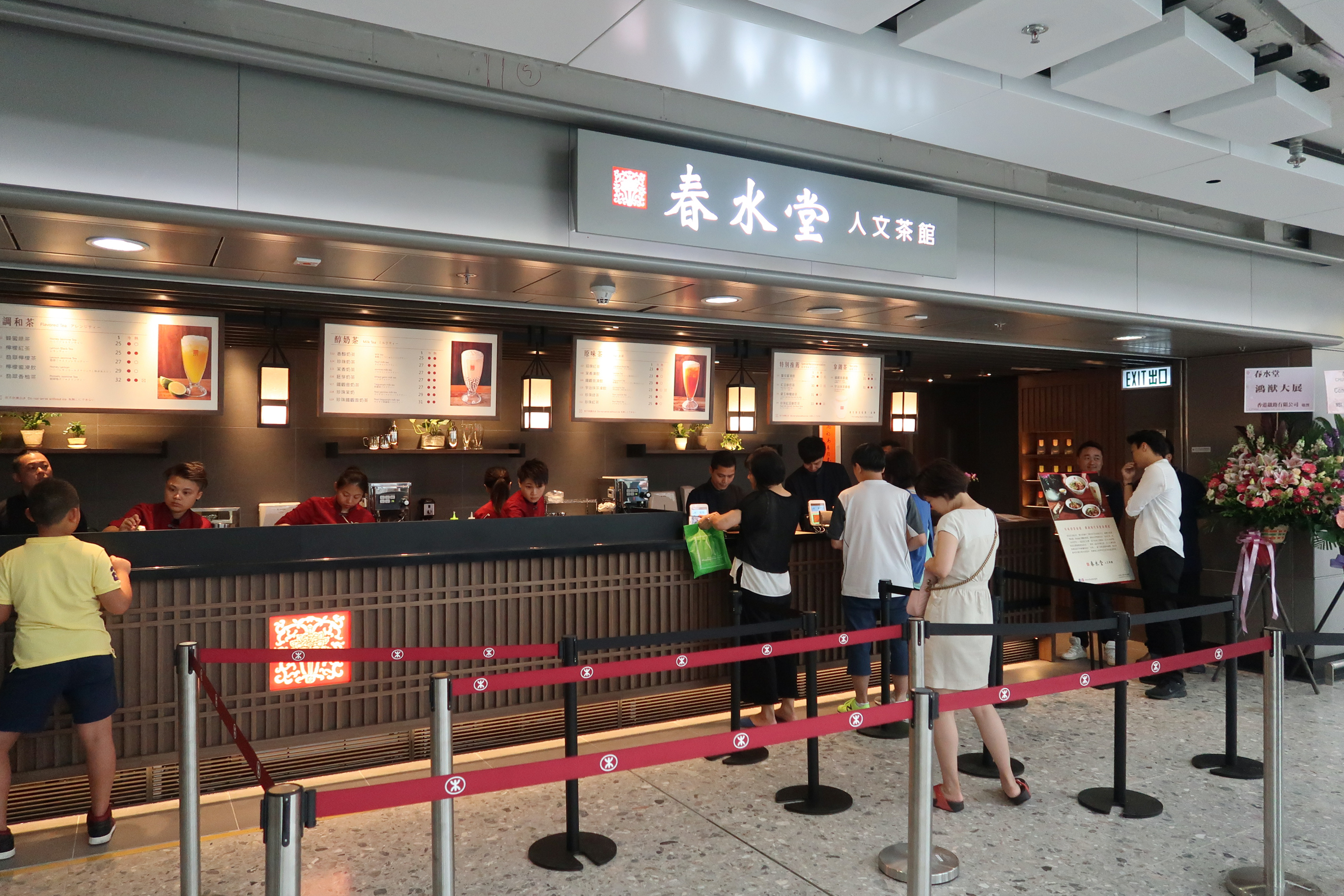 Chun Shui Tang in West Kowloon Station